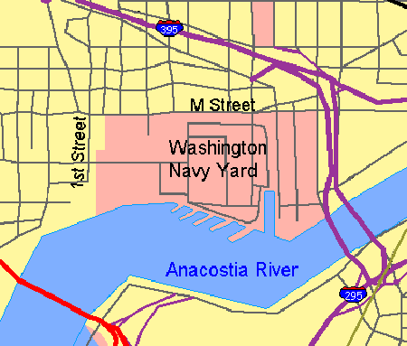 Map of the Washington Navy Yard — in the Navy Yard district of Southeast, Washington, D.C. Located between the Anacostia River and M Street. An active military office complex, NRHP Washington Navy Yard Historic District, and an adaptive reuse projects and Superfund site.